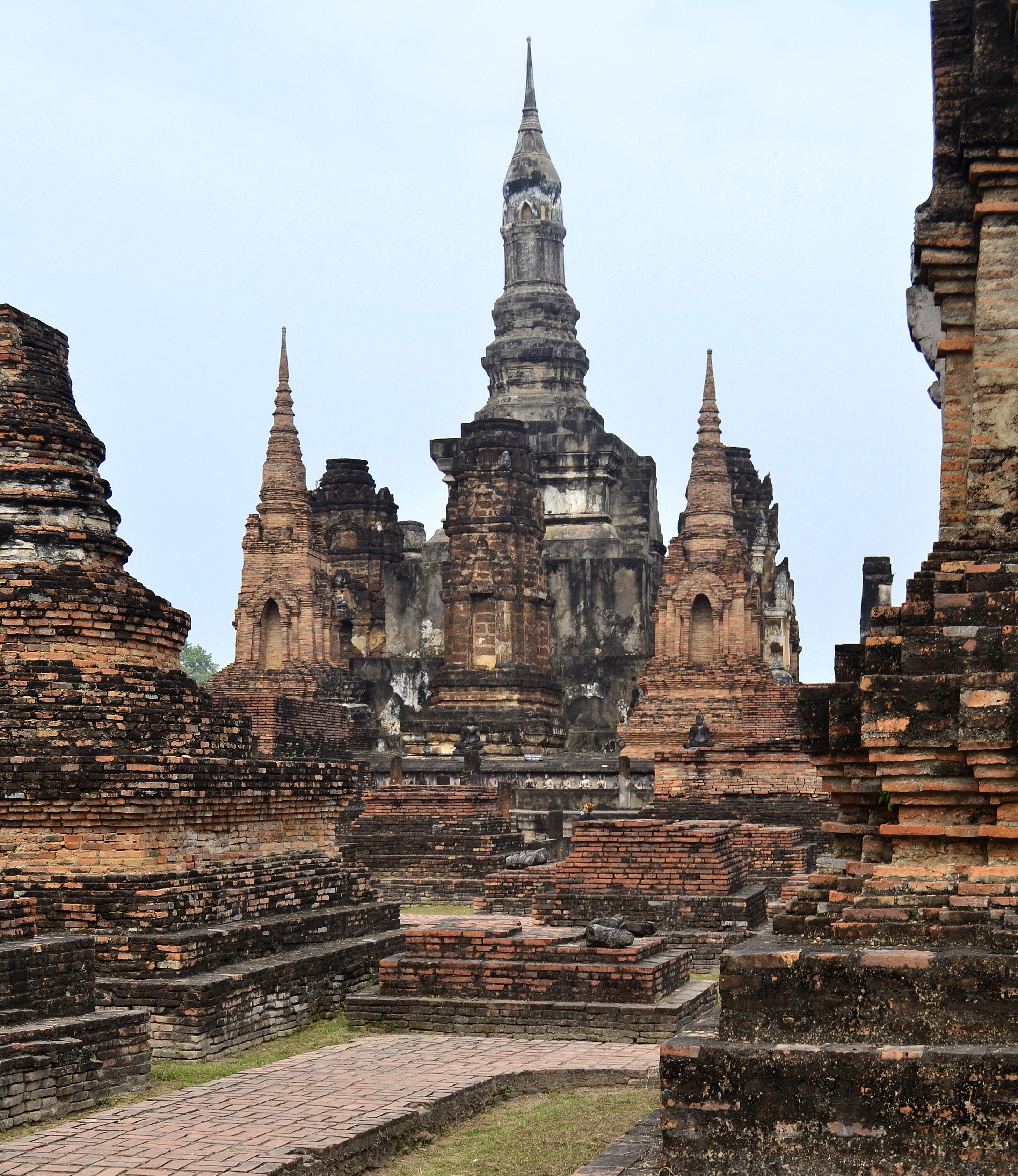 Wat Mahathat (Sukhothai Historical Park)